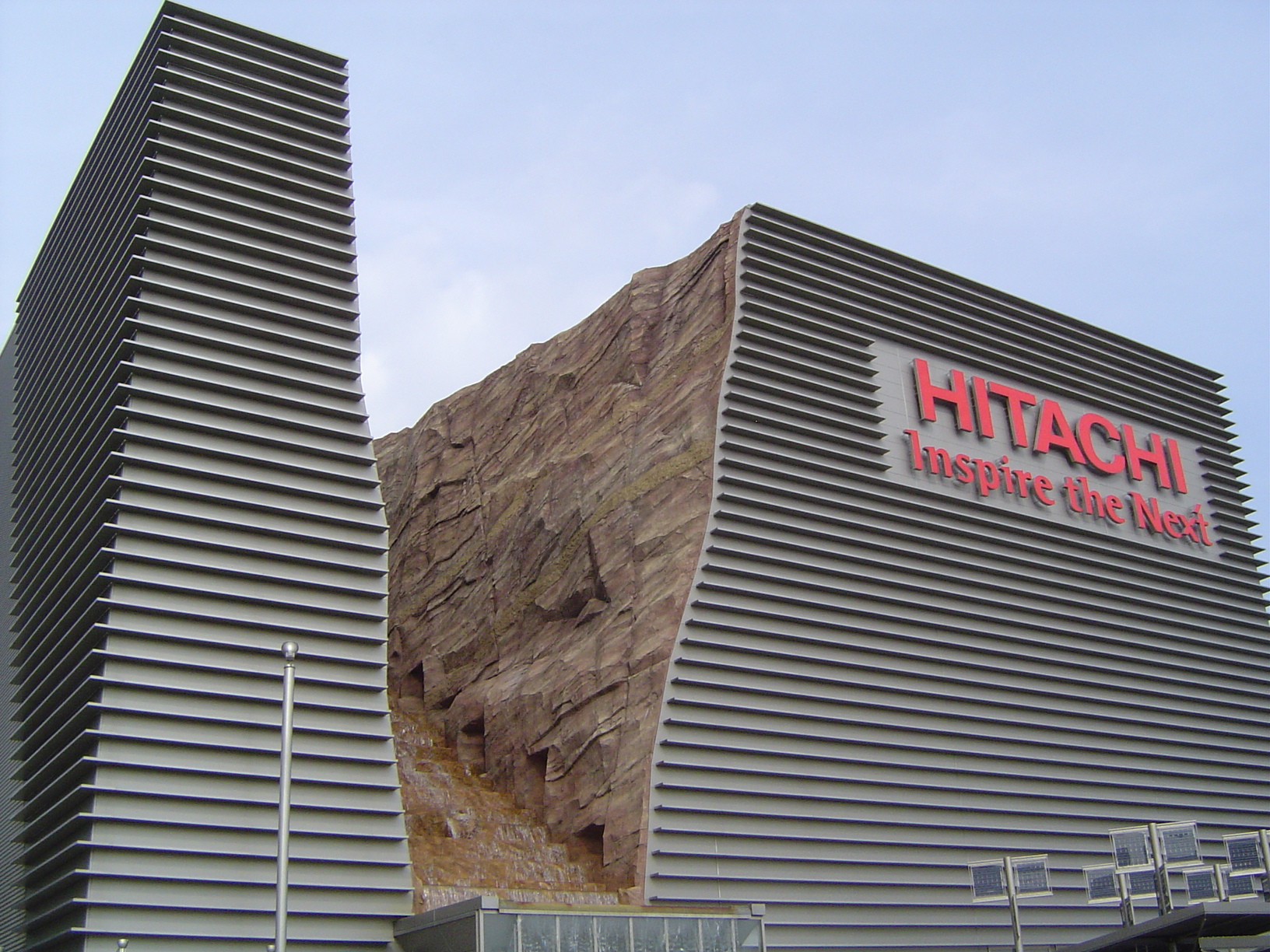 "Nature Contact - Hitachi Group Pavilion's Ubiquitous Entertainment Ride" in Nagakute area of Expo 2005 Aichi Japan